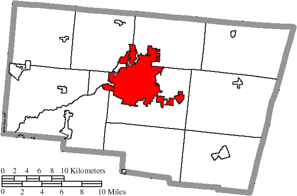 Map of the municipal and township boundaries of Clark County, Ohio, United States, as of the 2000 census, with the location of the city of Springfield highlighted. Township borders are shown only in unincorporated areas in order to differentiate incorporated and unincorporated areas more clearly.